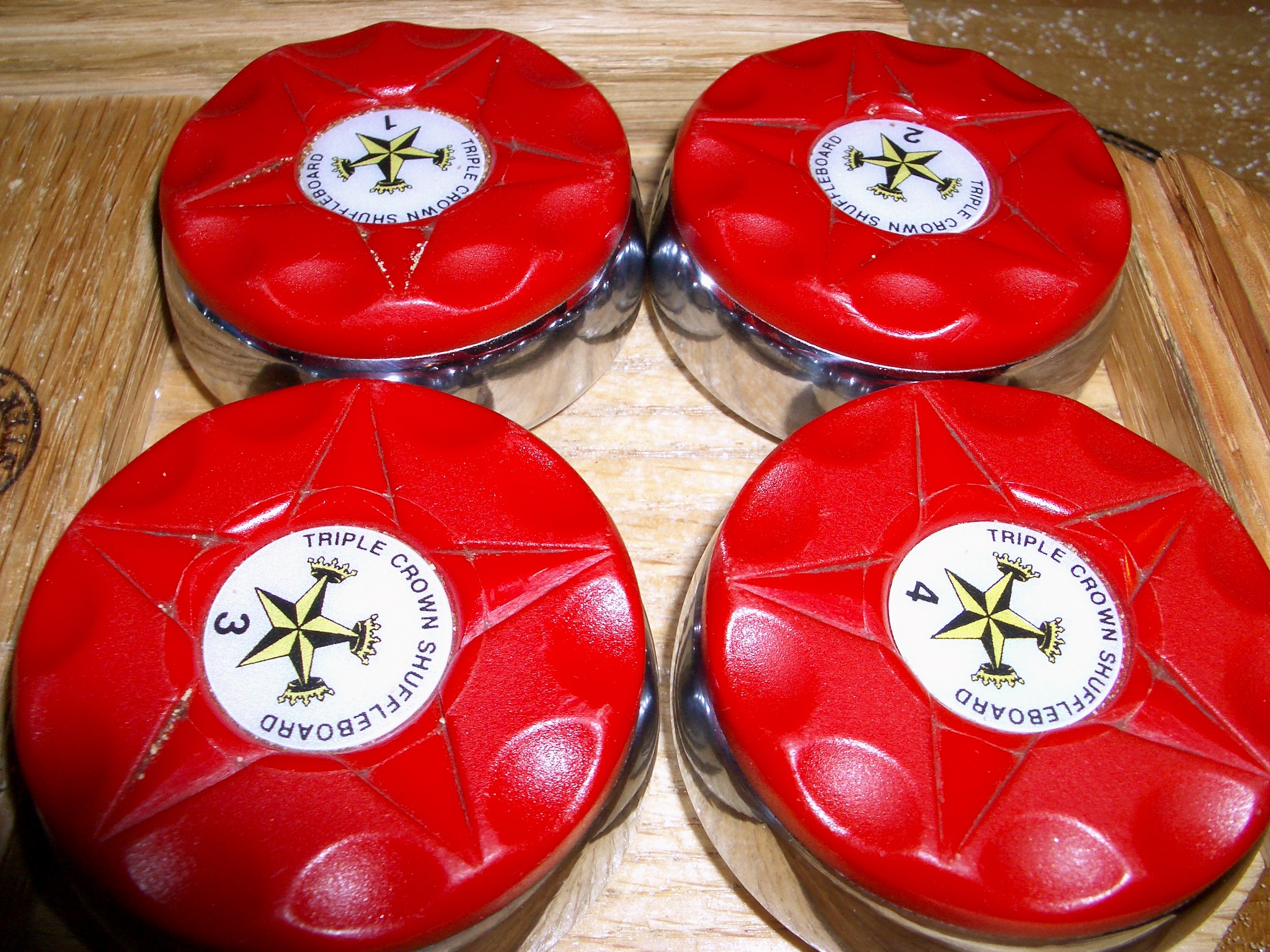 A set of four table shuffleboard pucks.